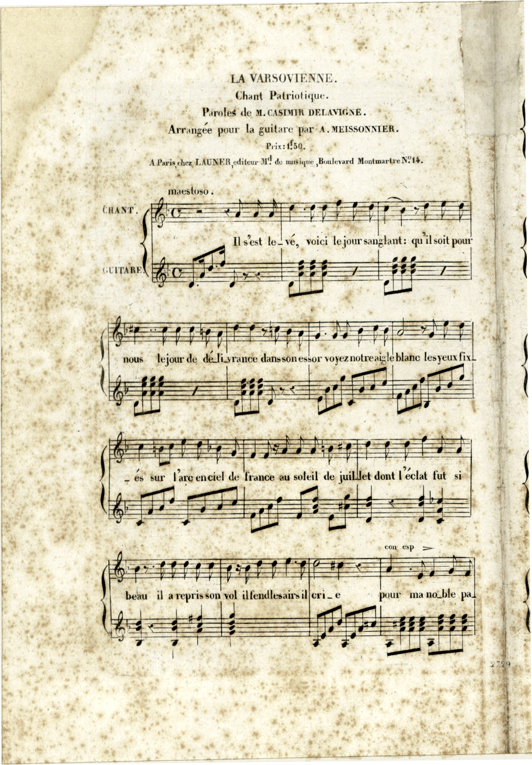 Sheet music of La Varsovienne. Lyrics by French poet and dramatist Casimir Delavigne. Music by Antoine Meissonnier (1783-1857). A Paris, chez Launer, éditeur Marchand de musique, Boulevard Montmartre N° 14.